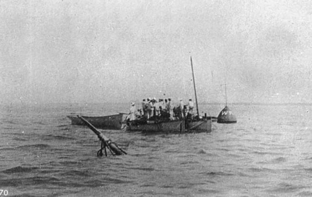 Мачта крейсера «Жемчуг» на месте гибели корабля